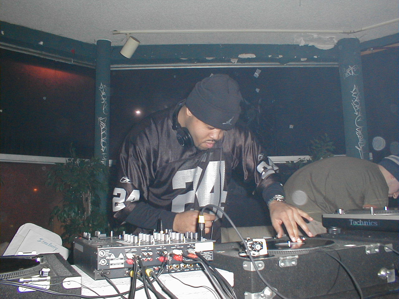 Original description: DJ Assault taken at a rave in Springfield Massachusetts in 2003. If published photo credit should read "Photo by Alkivar